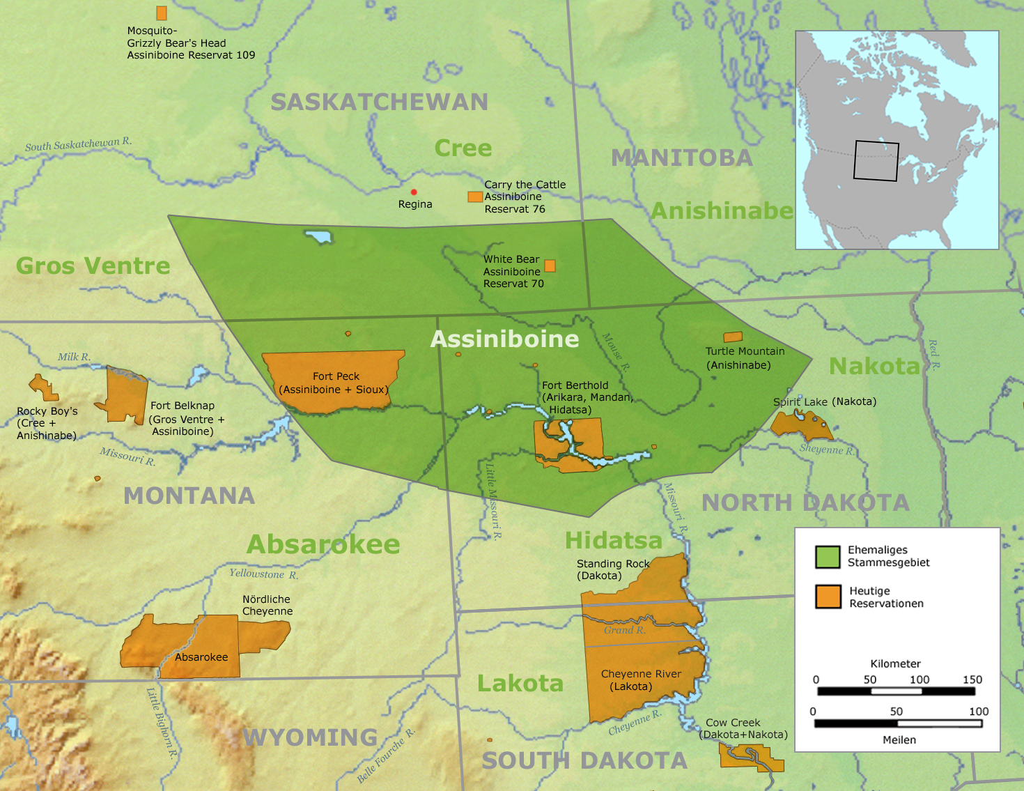 Tribal territory of Assiniboine